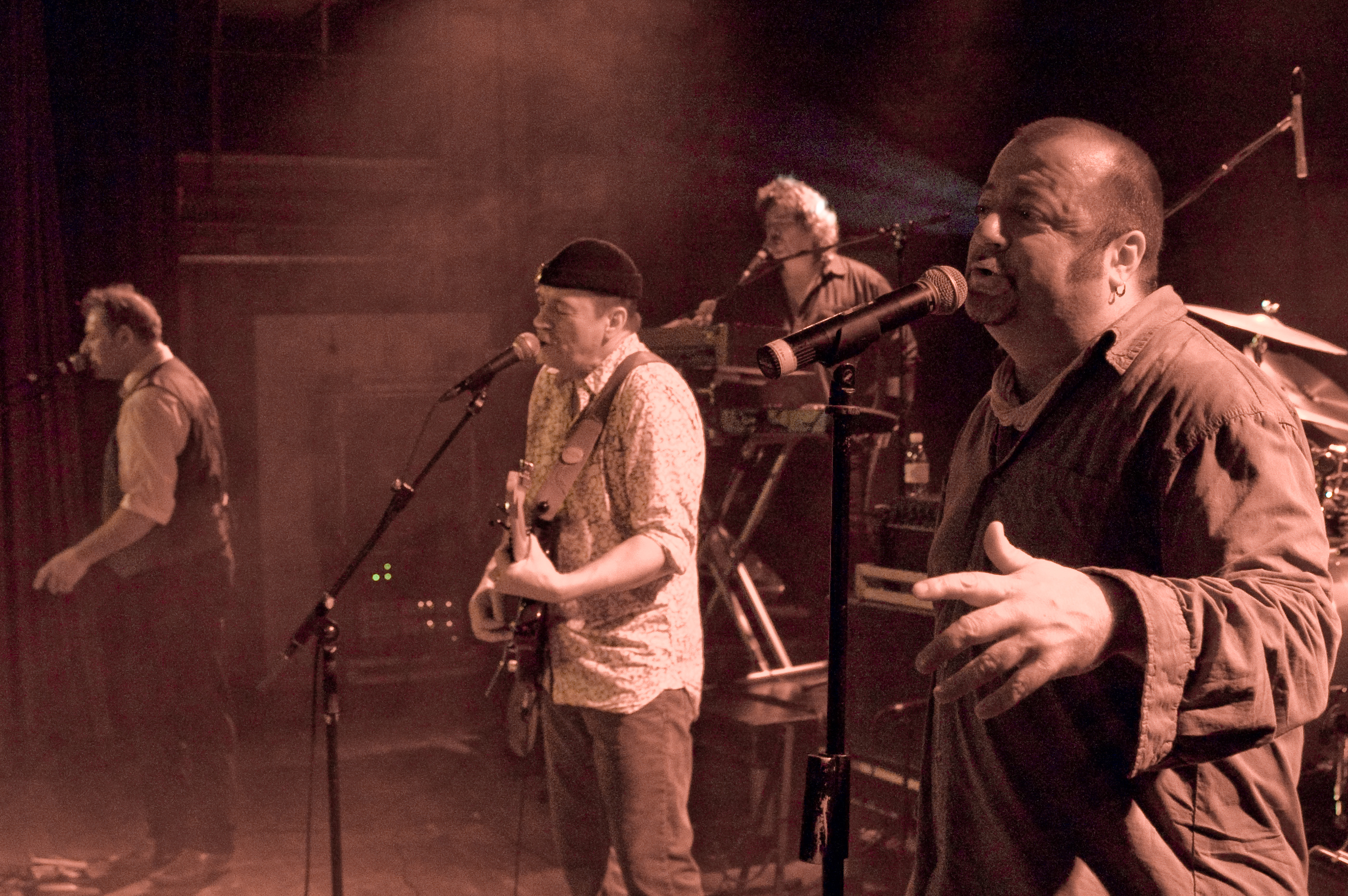 Soldat Louis' show in Monthey. The making of this document was supported by Wikimedia CH. (Submit your project!) For all the files concerned, please see the category Supported by Wikimedia CH.